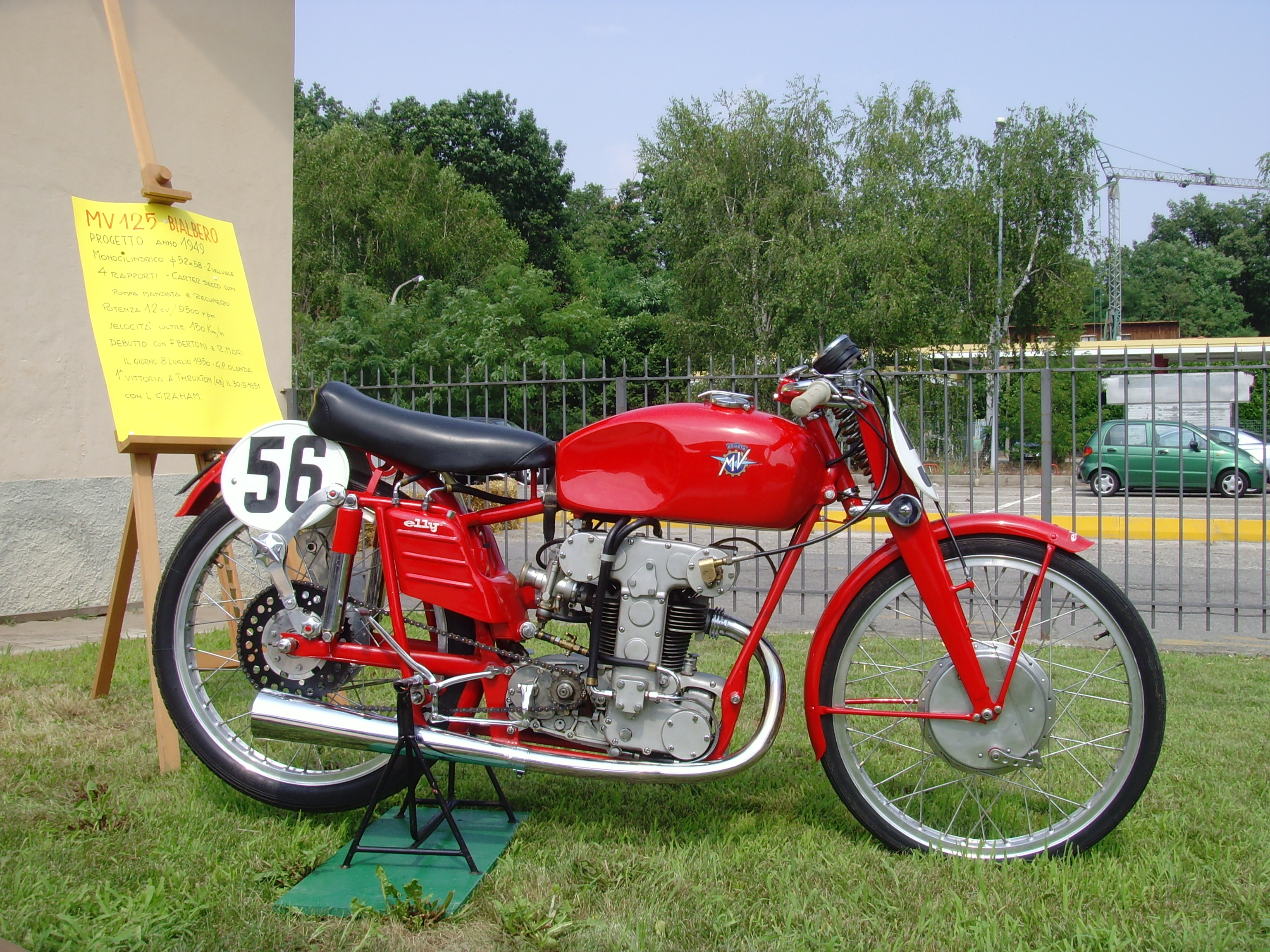 MV Agusta 125 DHOC racing del 1950